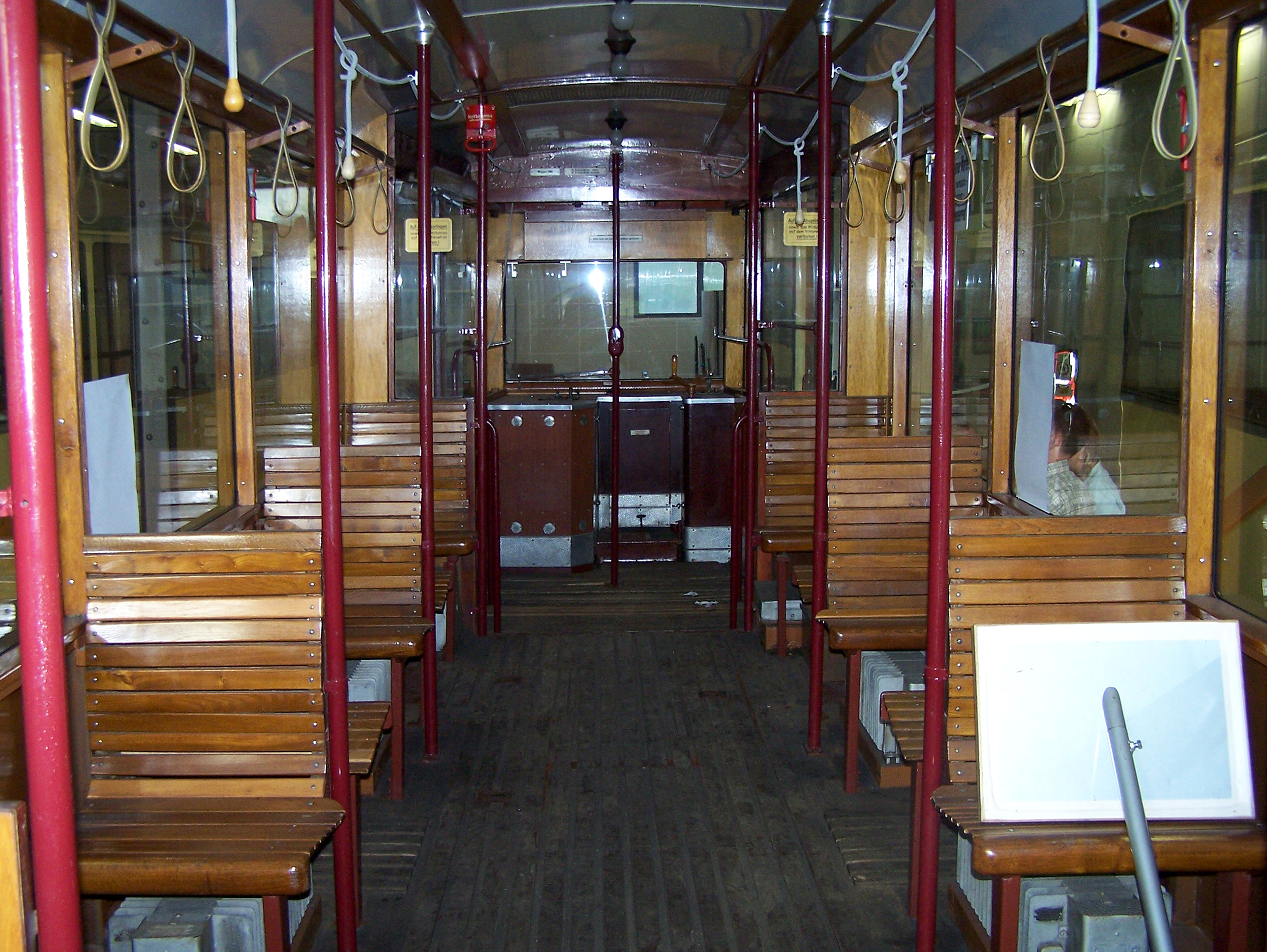 Tramway at Frankfurt am Main: Inside view of VGF type J (I) railcar 580 in the Frankfurt on Main Transport Museum in Frankfurt am Main--Schwanheim